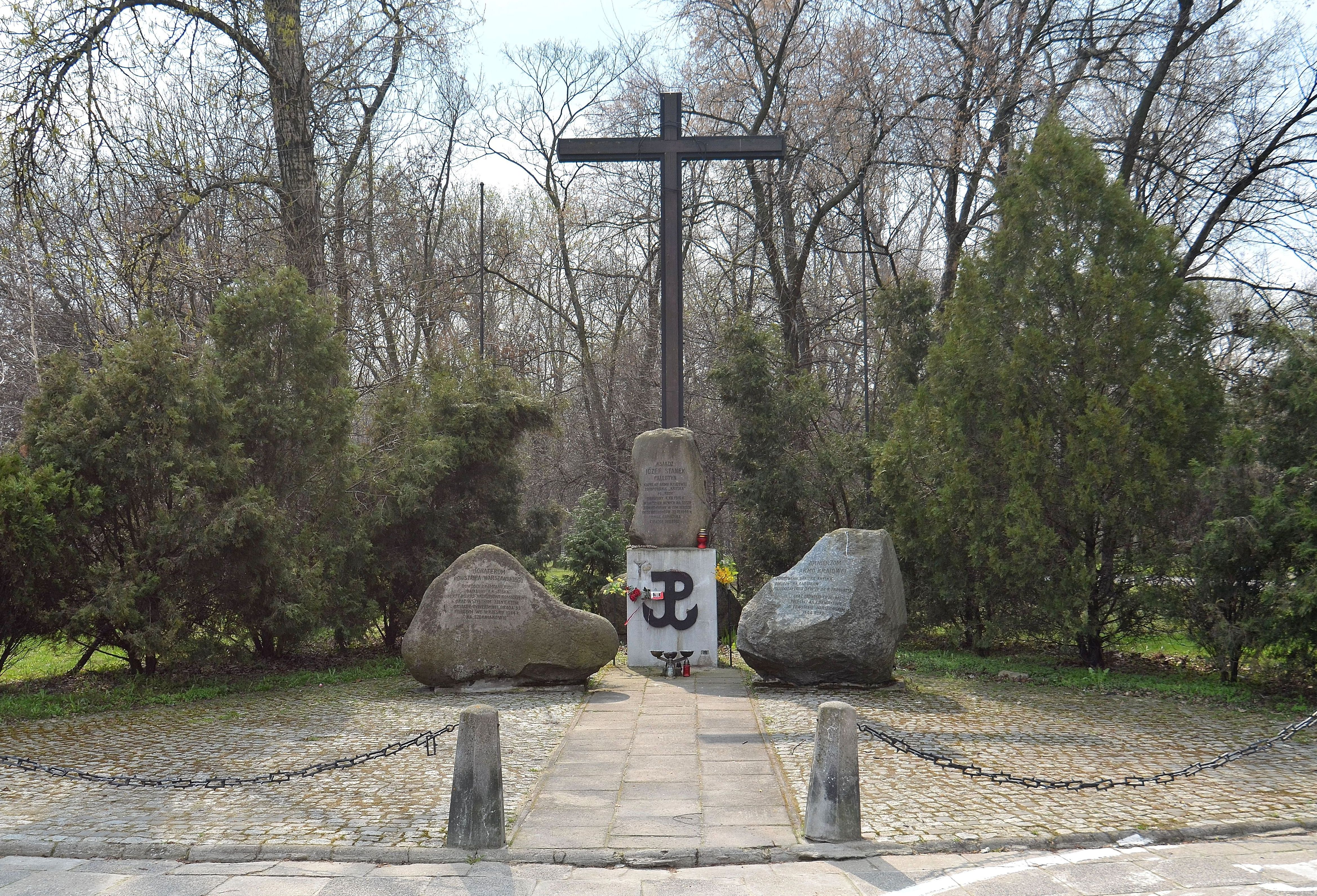 Józef Stanek memorial at the intersection of Solec and Wilanowska Streets in Warsaw